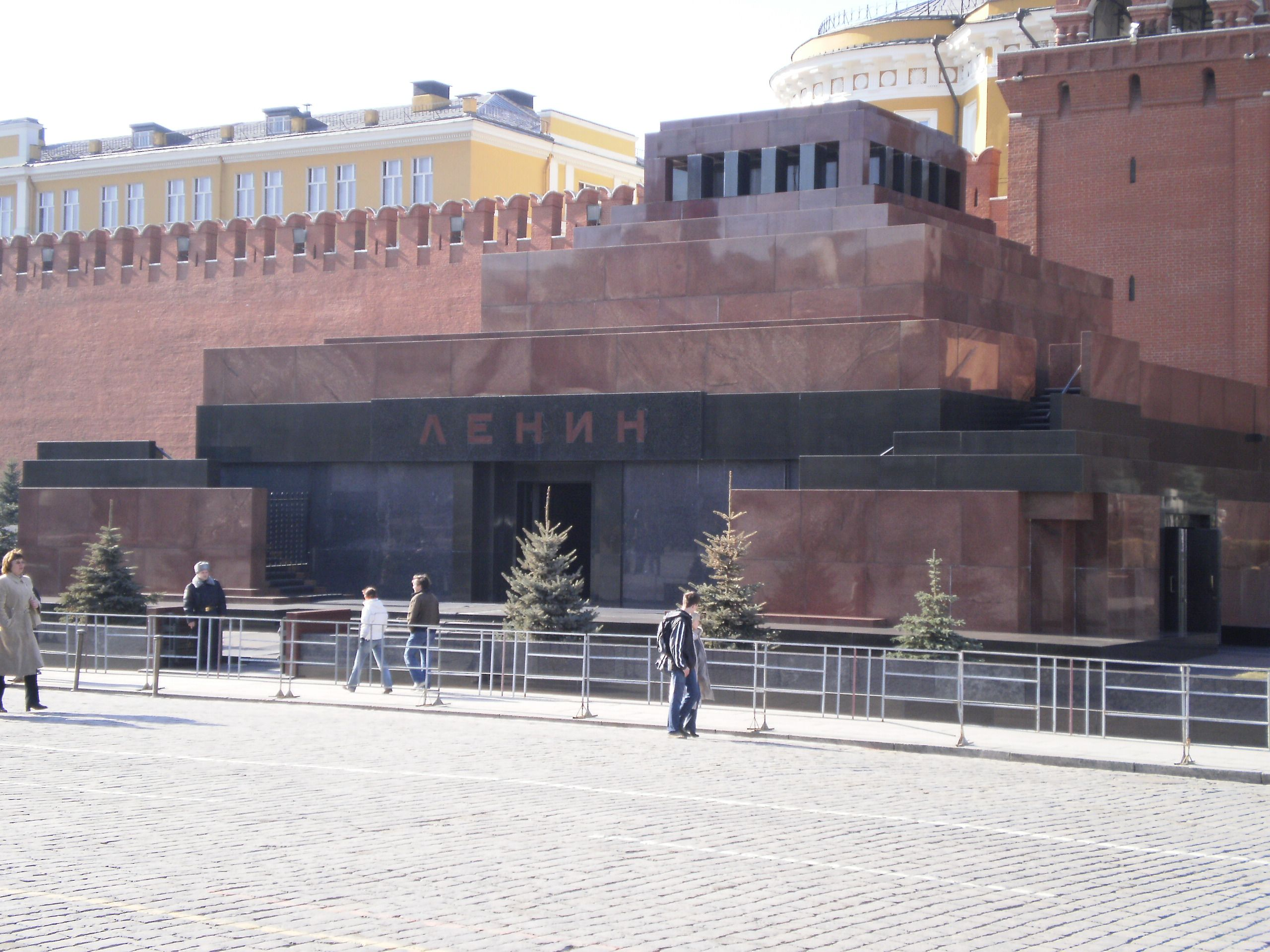 Lenin's Mausoleum